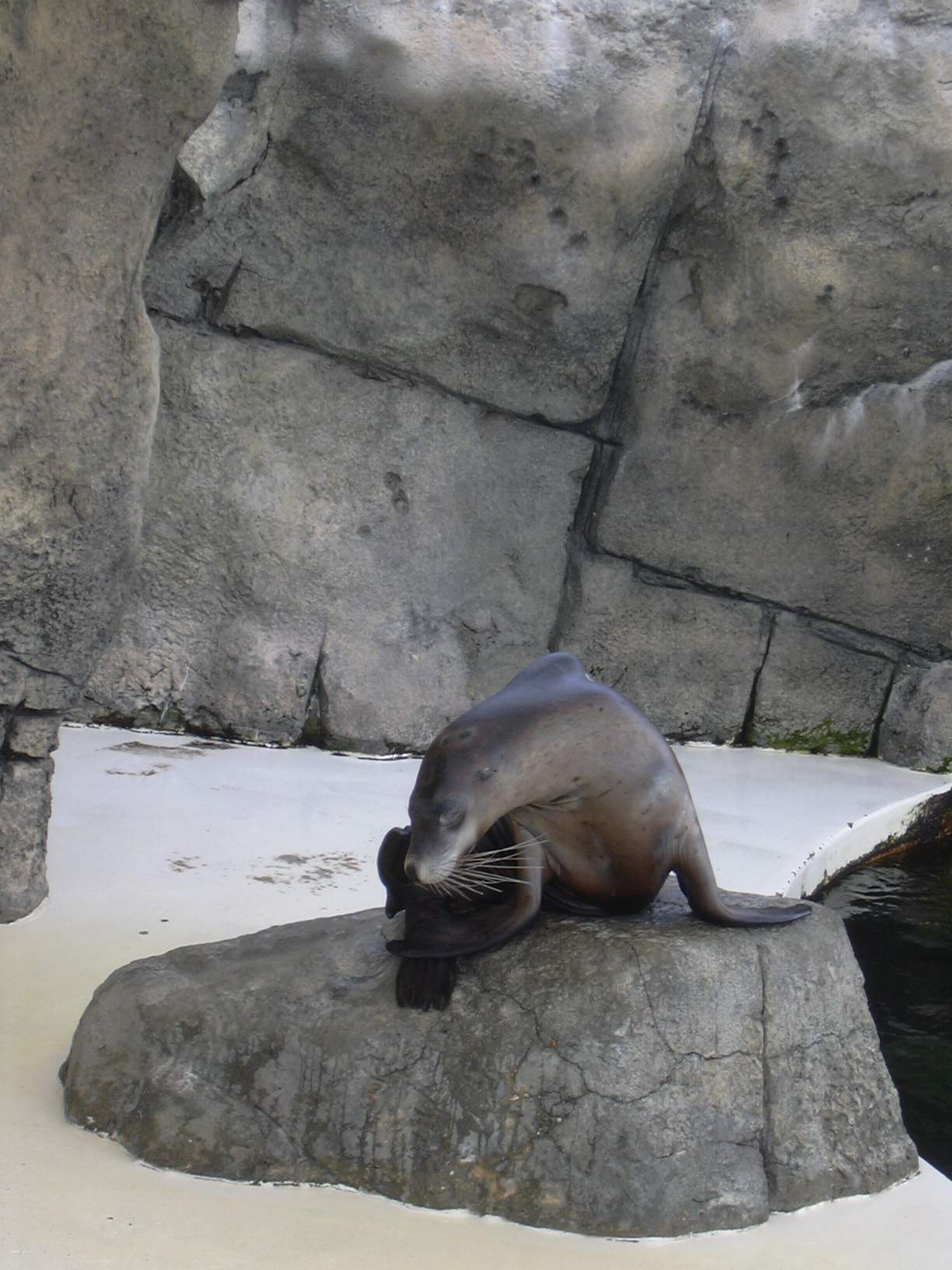 AQWA, Perth, Australian sea lion (Perth Coast)